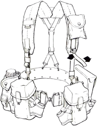 United States Army, Technical Manual All-Purpose Lightweight Individual Carrying Equipment, November 1973